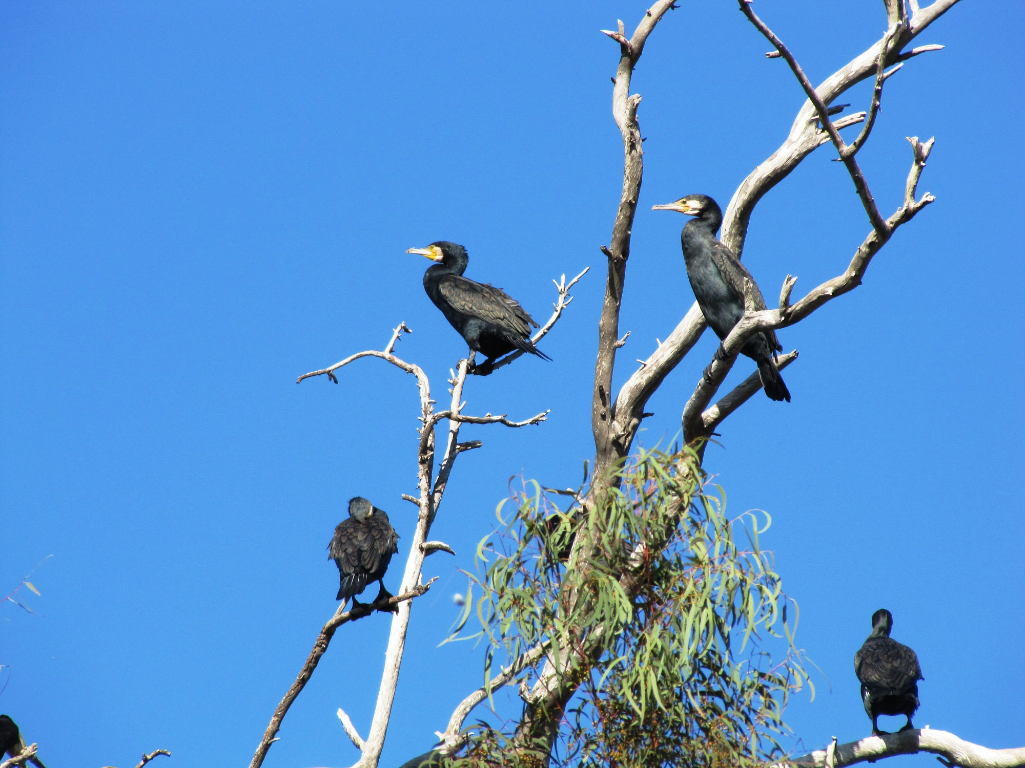 Cormorant in Hefziba Farm